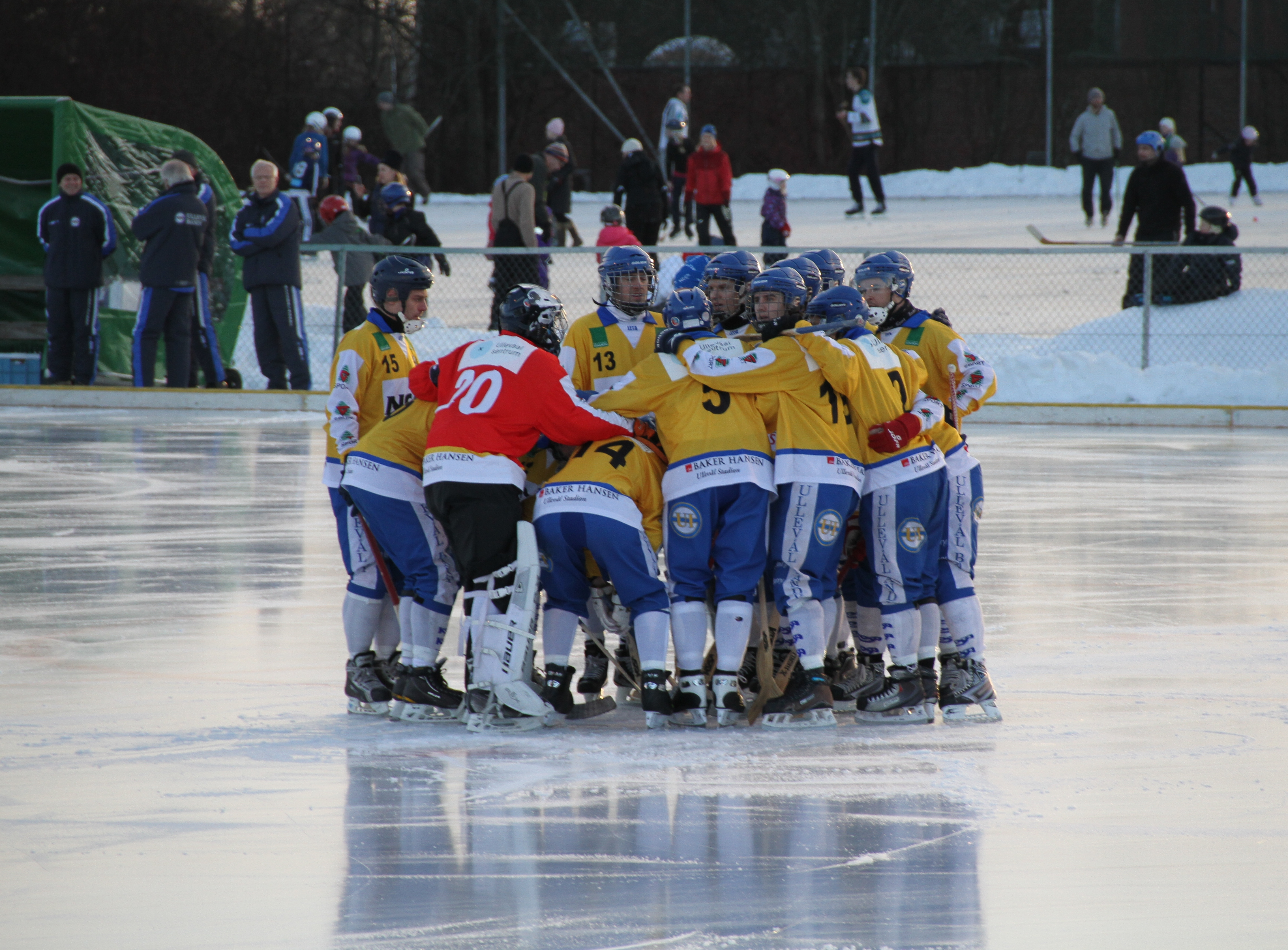 Bandy players representing the club Ullevaal Bandy (Oslo). Photo from December 26, 2011 match between Ready and Ullevaal Bandy, at Gressbanen Arena, Oslo.